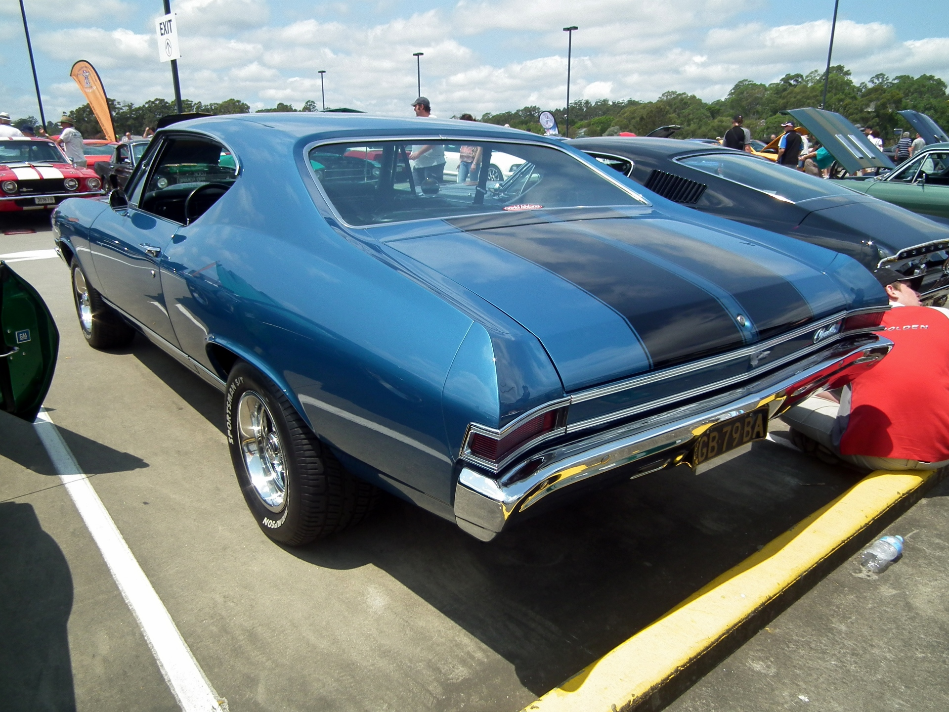 1968 Chevrolet Chevelle coupe. Taken at the 2014 New South Wales All American Day, held at Castle Towers Shopping Centre, Castle Hill, Sydney.